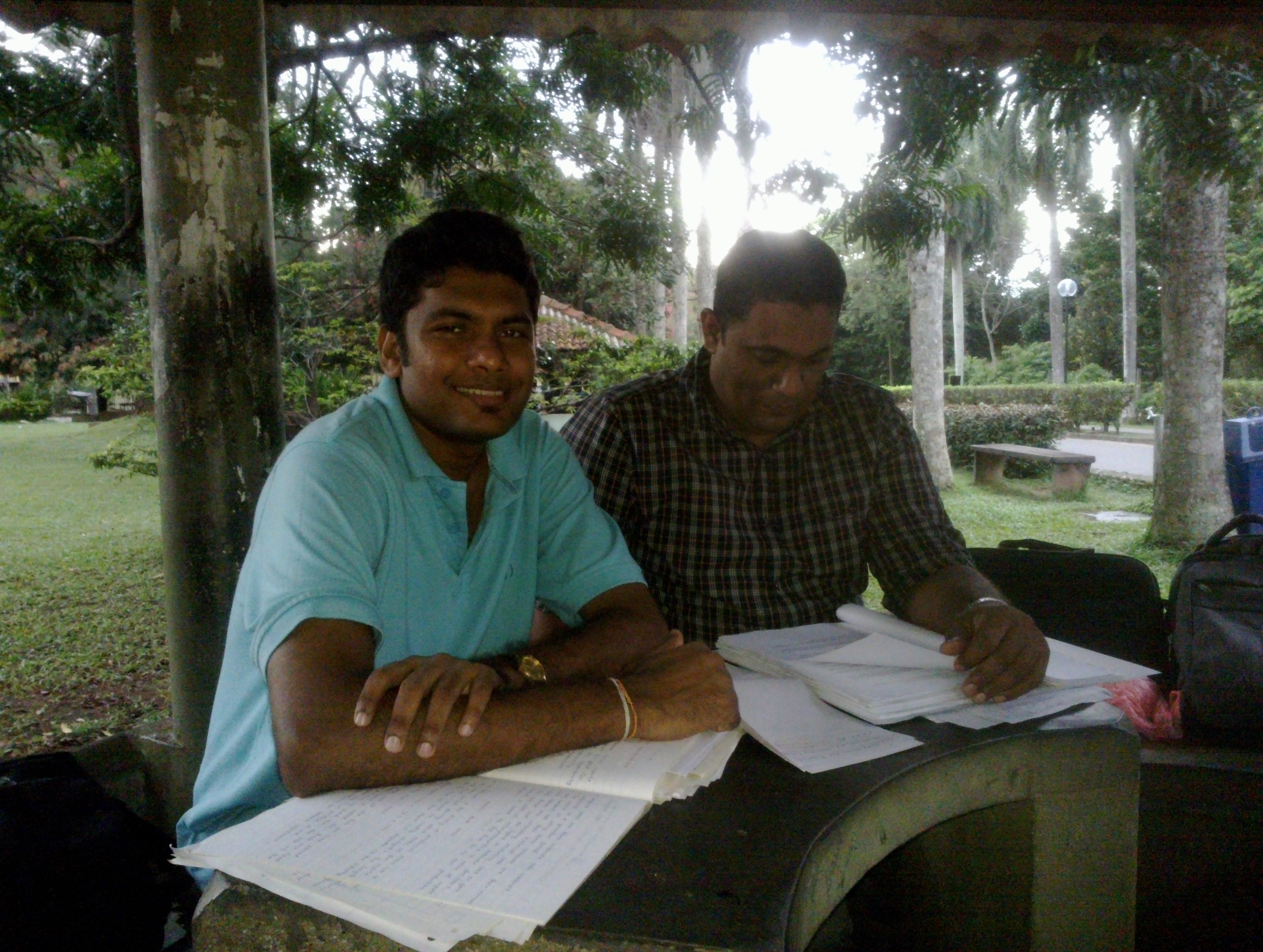 University Students Studying before exams - Japura campus Sri Lanka